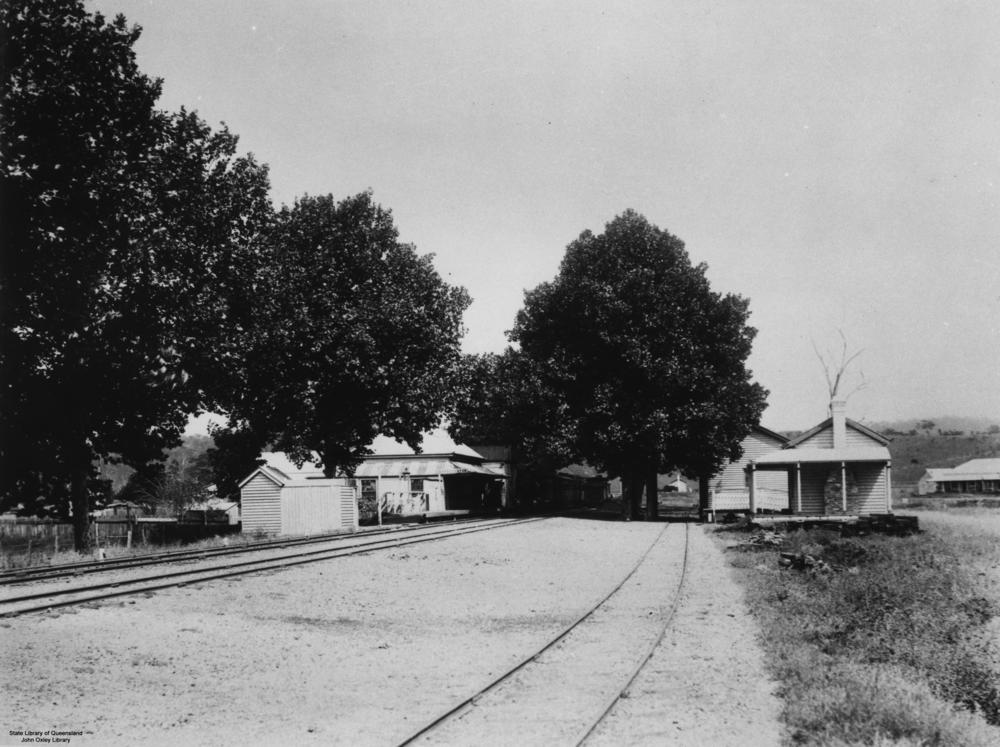 Grandchester railway station, ca. 1915 View of the Grandchester railway station around 1915. The station buildings and railway tracks are visible.